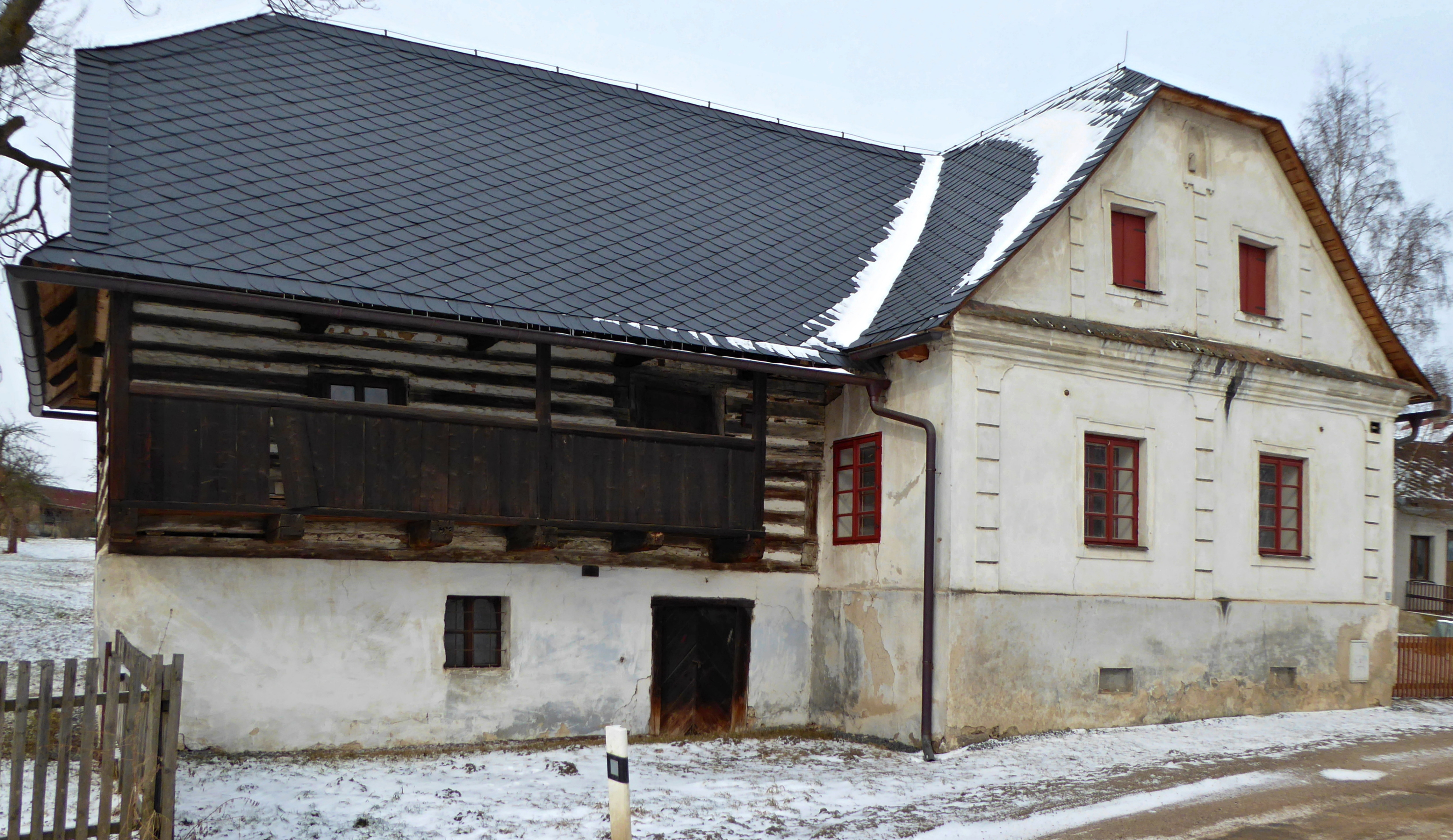 Object of former forge from the turn of the 18th and 19th centuries and czech cultural monument in the village of "Vysočina", part "Možděnice". Building near the local road with a yellow marked tourist route of the Club of Czech Tourists (part: "Zubří – Možděnice – Kocourov"). A cultural monument since May 3, 1958, documents the development of a country house associated with a forge. Photo location: Czechia, Pardubice Region, municipality Vysočina, the hamlet of "Možděnice", "Stružinecká" knoll hill.